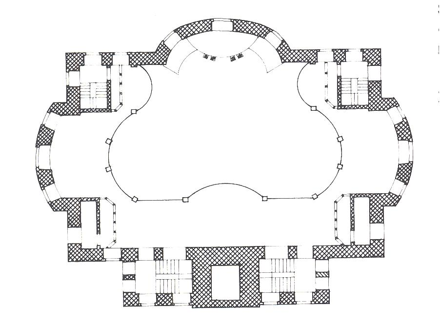 Historic Ground Plan (19. Century) of St. Michaels Church in Ohrdruf in Thuringia